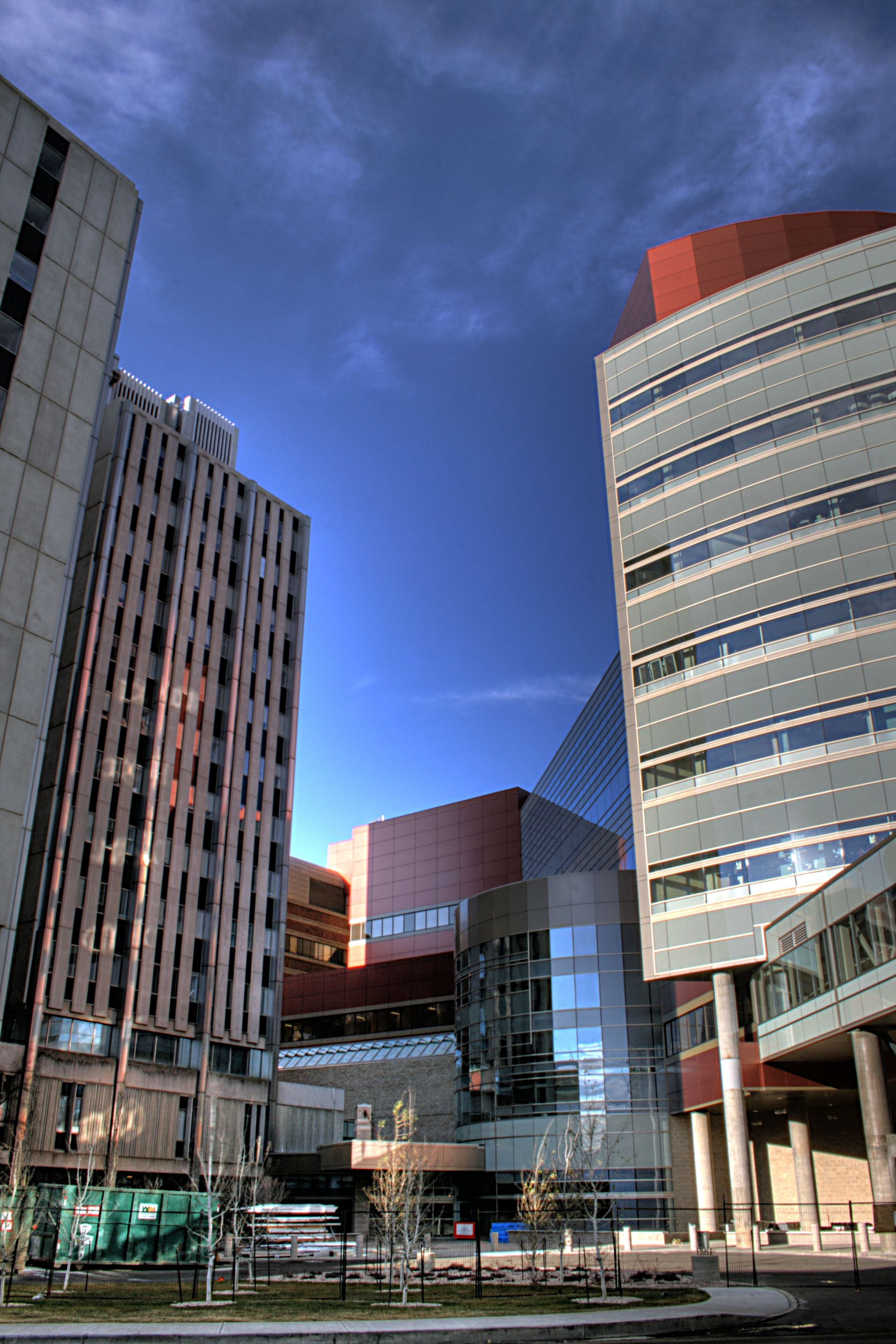 View from the south of the University Hospital Complex at the University of Alberta North Campus, Edmonton, Alberta, Canada.